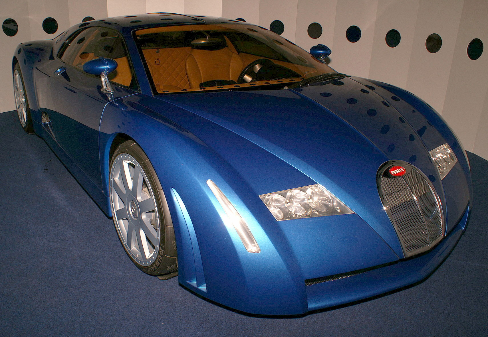 Bugatti 18/3 Chiron as is sits currently.